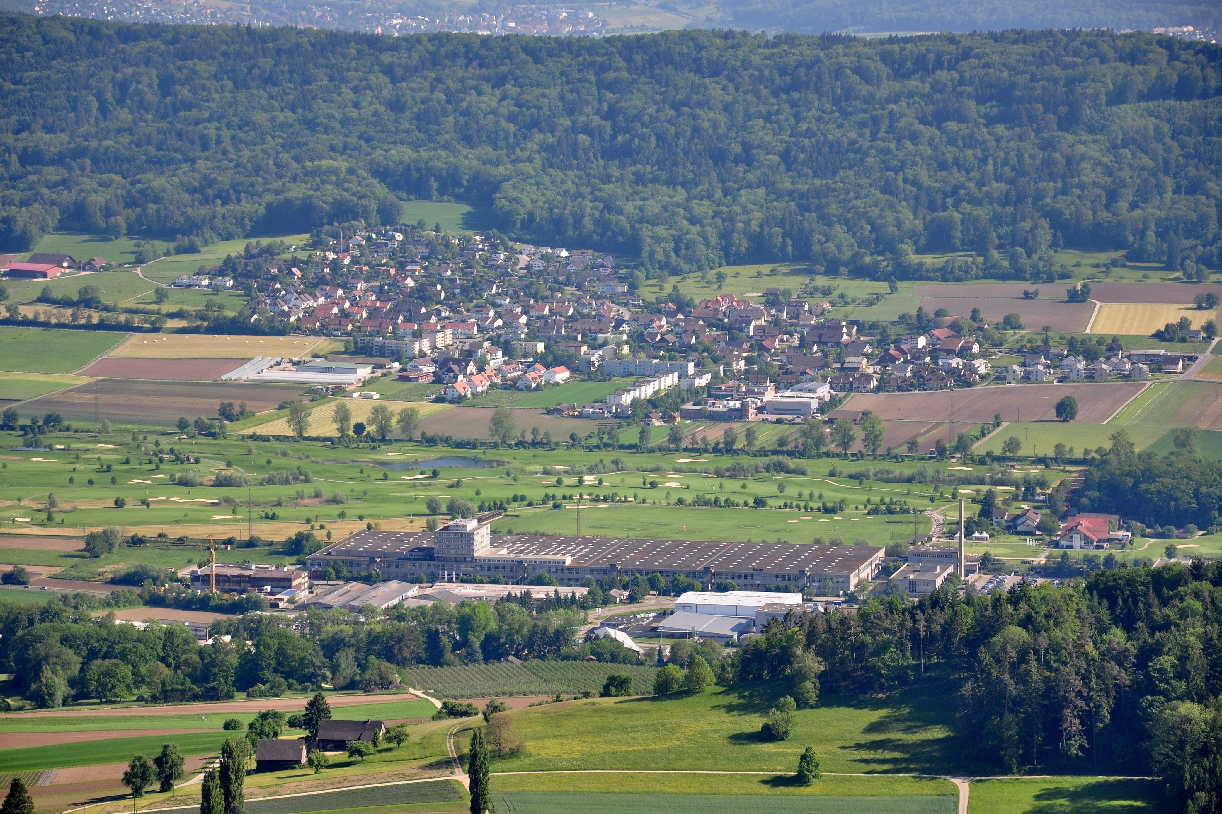 Dänikon on the northern slope of the Altberg in the back with the eastern end of Otelfingen's industrial area in the foreground and part of the Golfpark Otelfingen in between as seen from Burghorn respectively Jura-Höhenweg on Lägern (Switzerland)